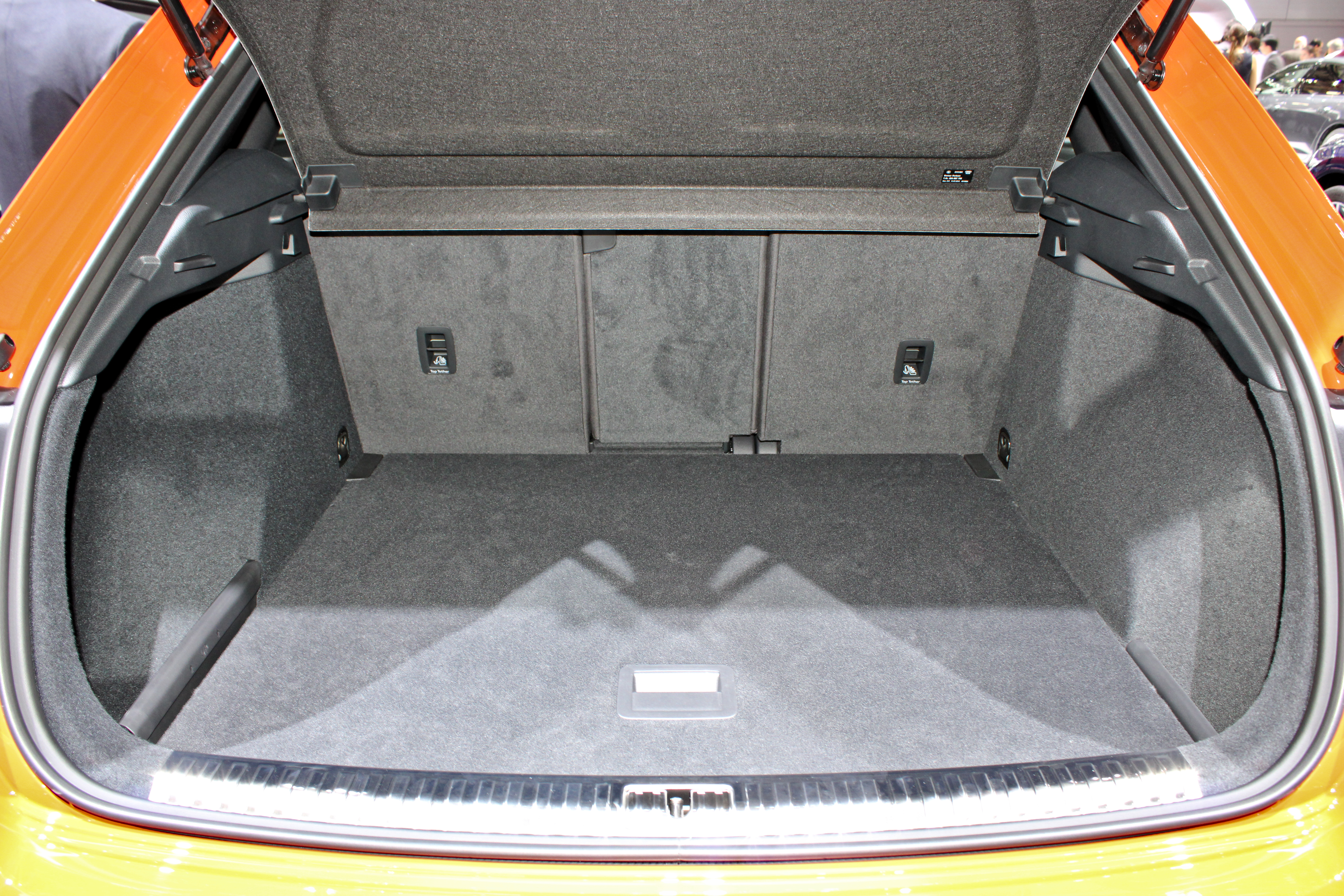 Audi Q3 45 TFSI Quattro at Paris Motor Show 2018